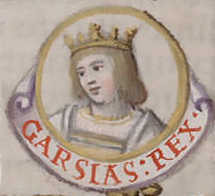 Garcia I of Leon